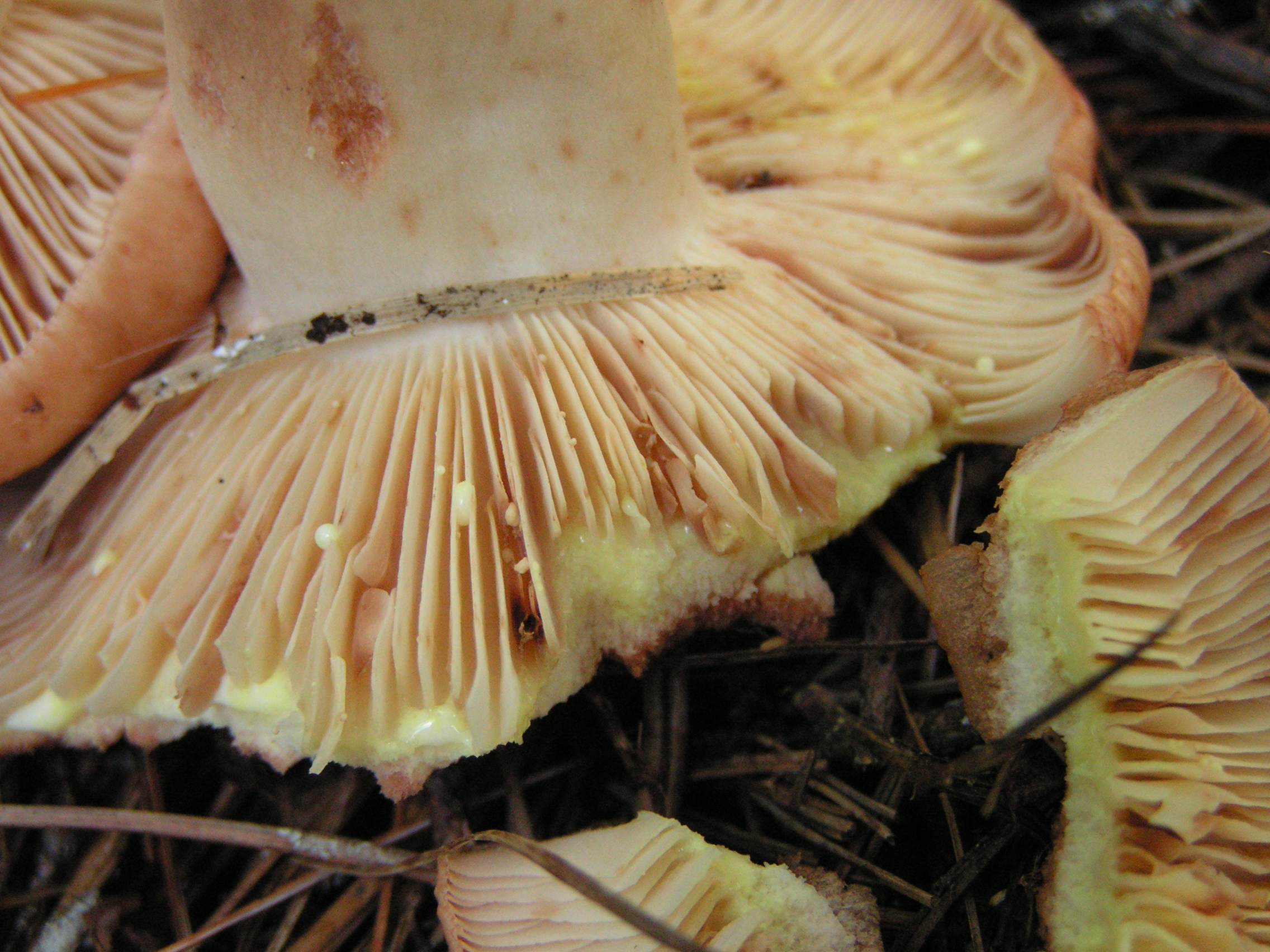 Photo of broken fruit bodies of the mushroom Lactarius vinaceorufescens, showing the typical yellowing reaction that occurs shortly after the internal flesh is exposed to air.